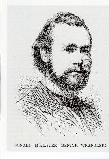 Donald MacAlister of St. John's College, Cambridge - Senior Wrangler in 1877